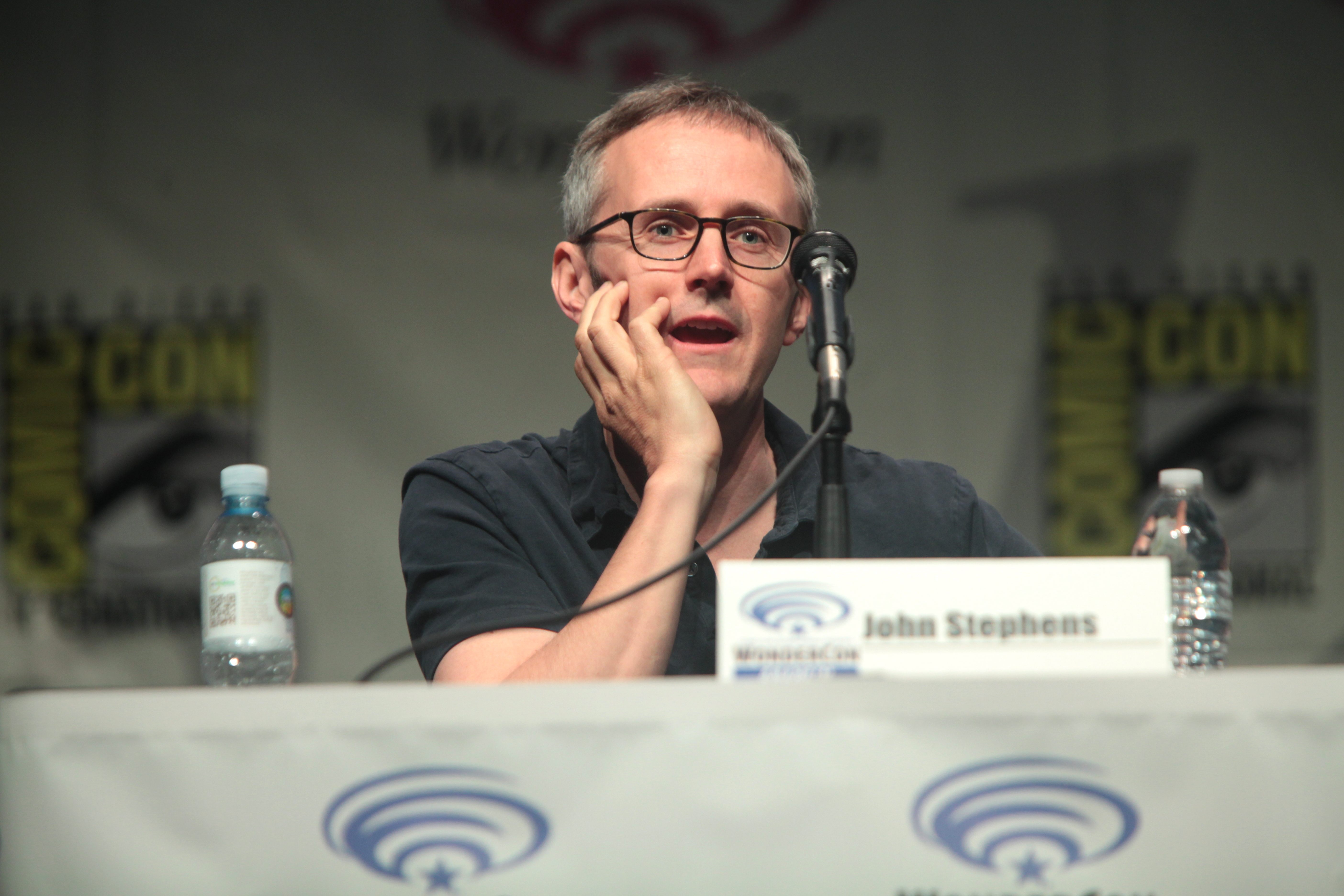 John Stephens speaking at the 2015 Wondercon, for "Gotham", at the Anaheim Convention Center in Anaheim, California.